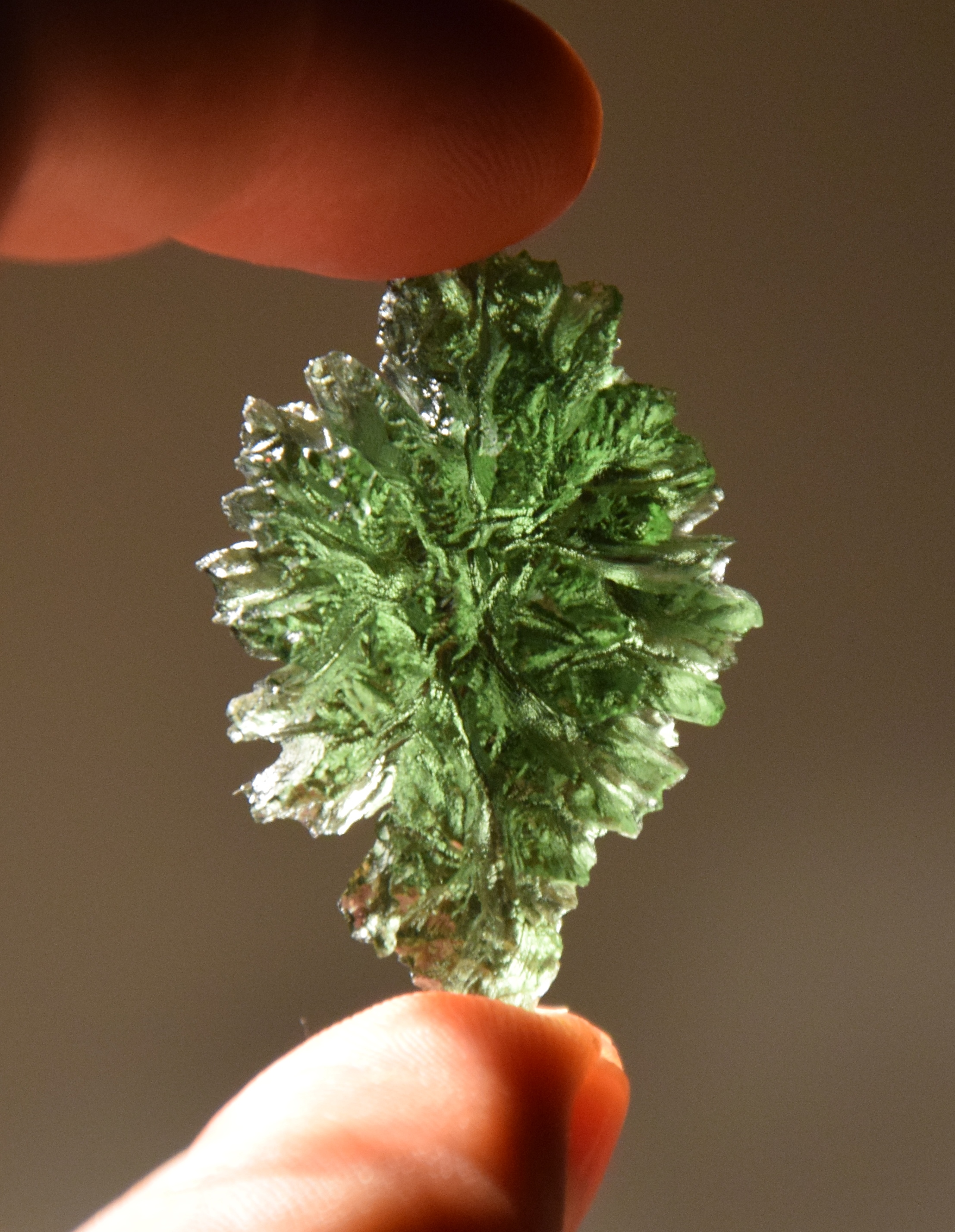 Moldavite Besednice Photo: Onohej Zlatove, Moldavite Association